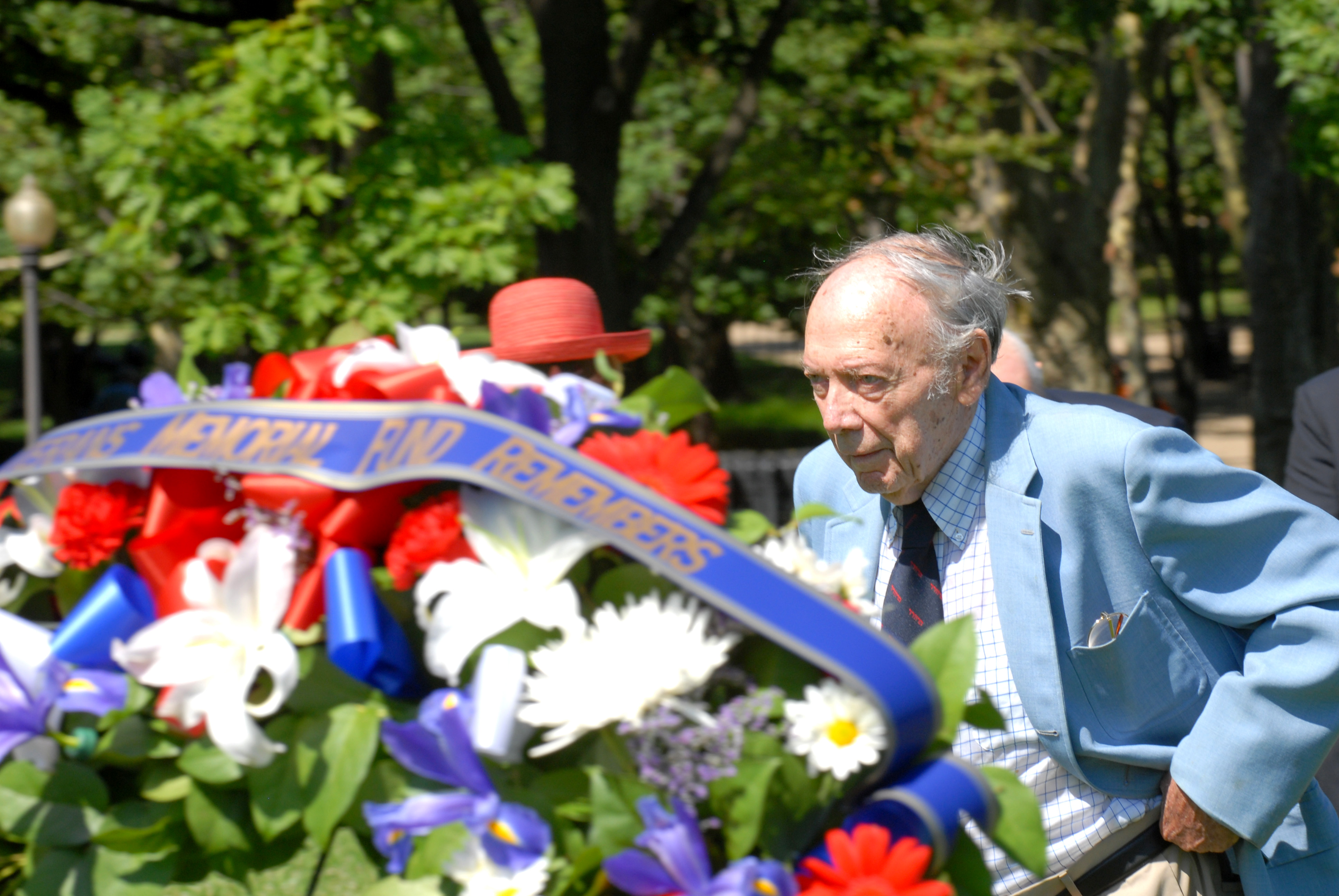 Book author and journalist Stanley Karnow prepares to offer remarks in Washington, D.C., July 8, 2009, at a ceremony in honor of the 50th Anniversary of the first two U.S. servicemembers killed in the Vietnam War. Karnow worked for Time Magazine in Saigon, Vietnam, and reported on the deaths of Army Master Sgt. Chester Ovnand and Maj. Dale Buis.